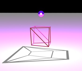 Creating a Schlegel diagram of a convex polyhedron by shining a light near one of its faces and catching the shadows with a plane on the other side of the polyhedron from the light.